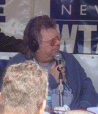 WTAM host Mike Trivisonno